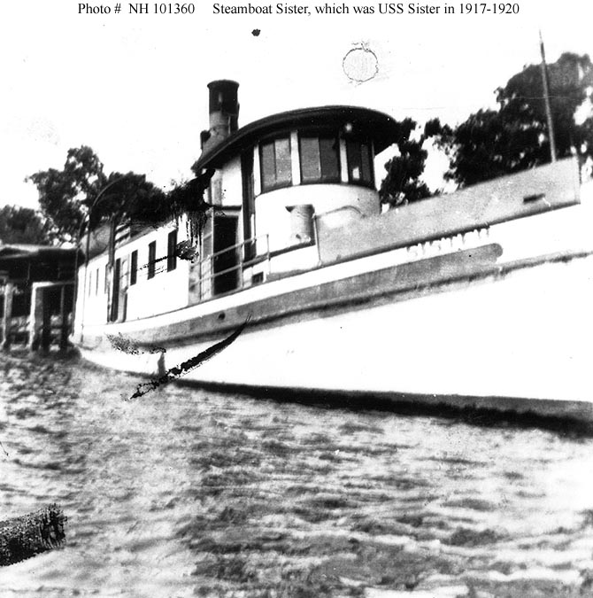 The steamer Sister prior to her United States Navy service as the tug and freight boat